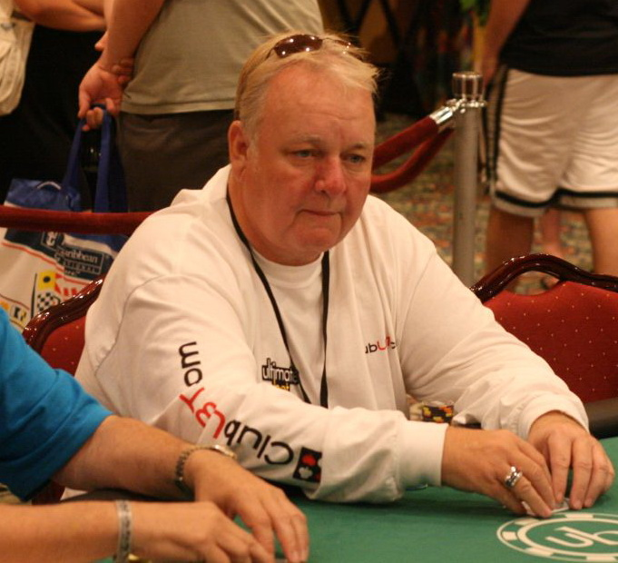 Russ Hamilton playing at the 2007 UltimateBet Aruba Poker Classic (cropped)